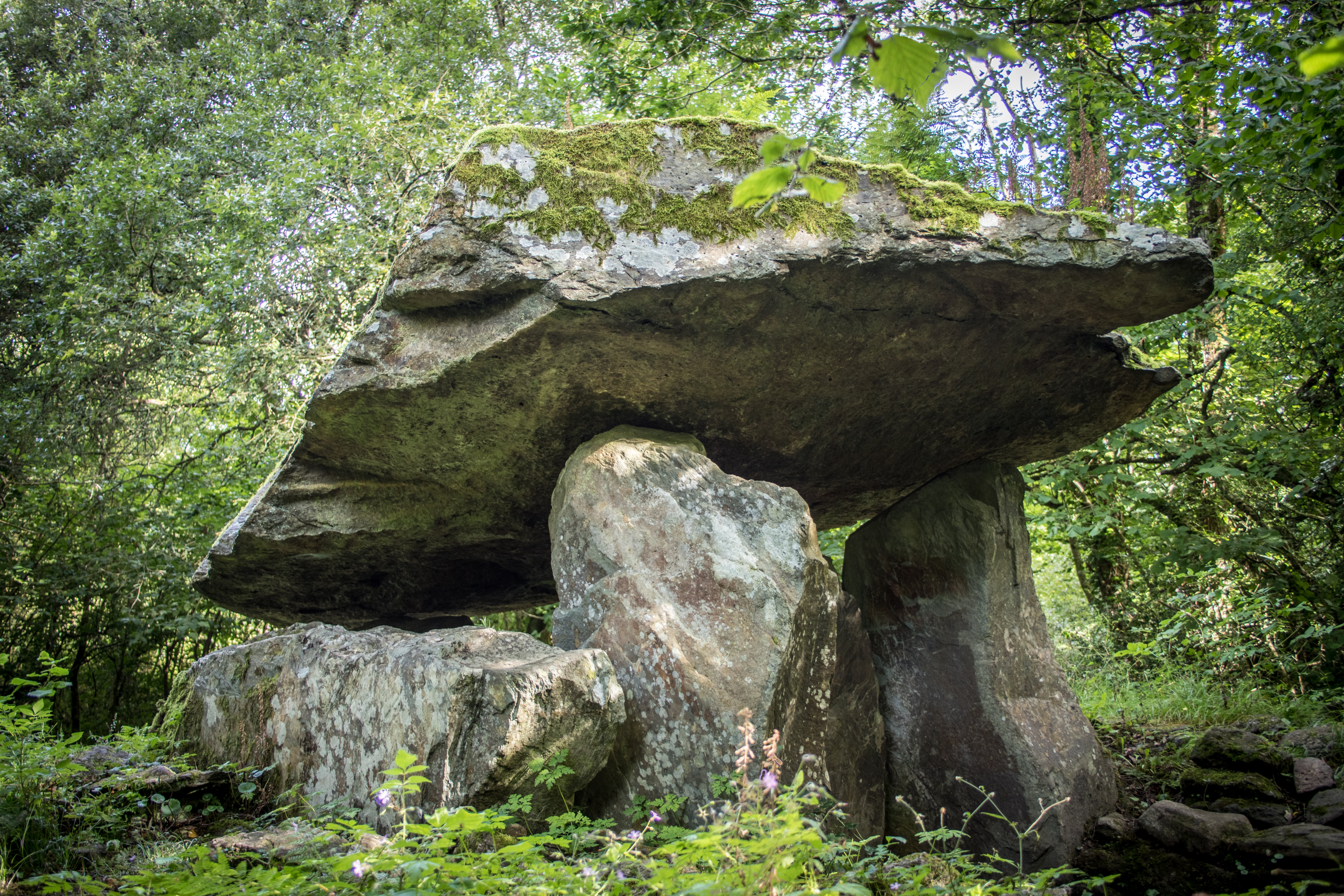 A reconstructed portal Dolmen found in the Irish National Heritage Park. The capstone of this dolmen weighs 27 tonne